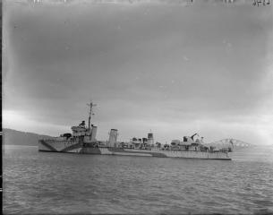 Royal Navy destroyer HMS Wolseyduring World War II